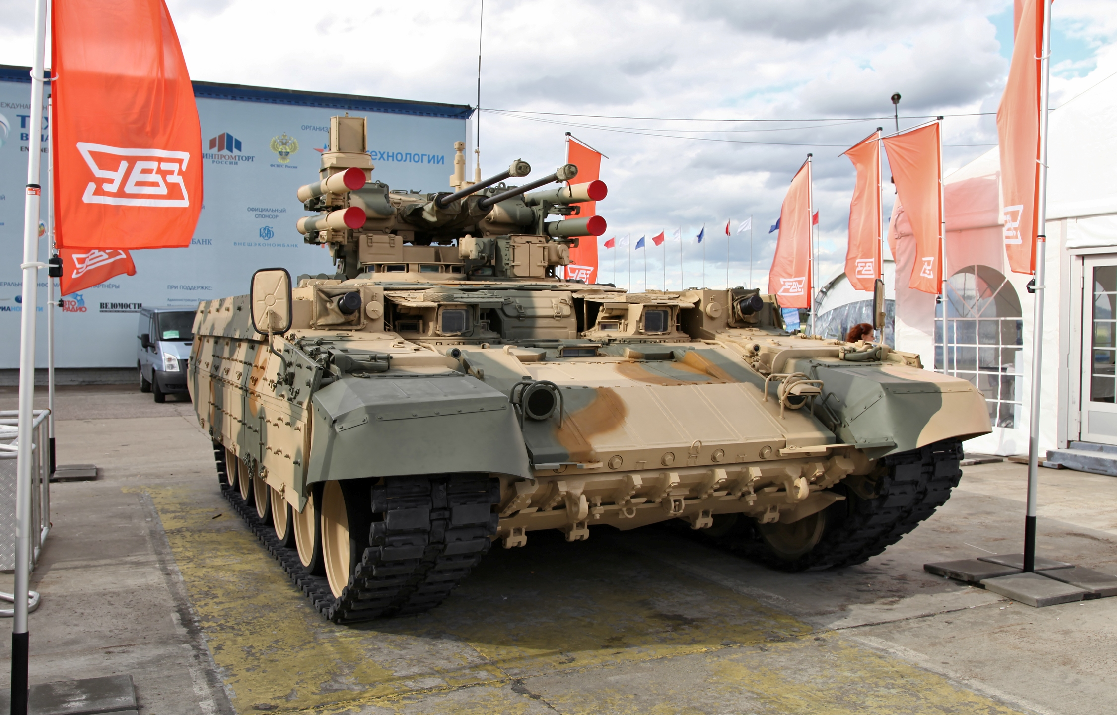 Tank support vehicle BMPT at Engineering Technologies 2012 international forum.